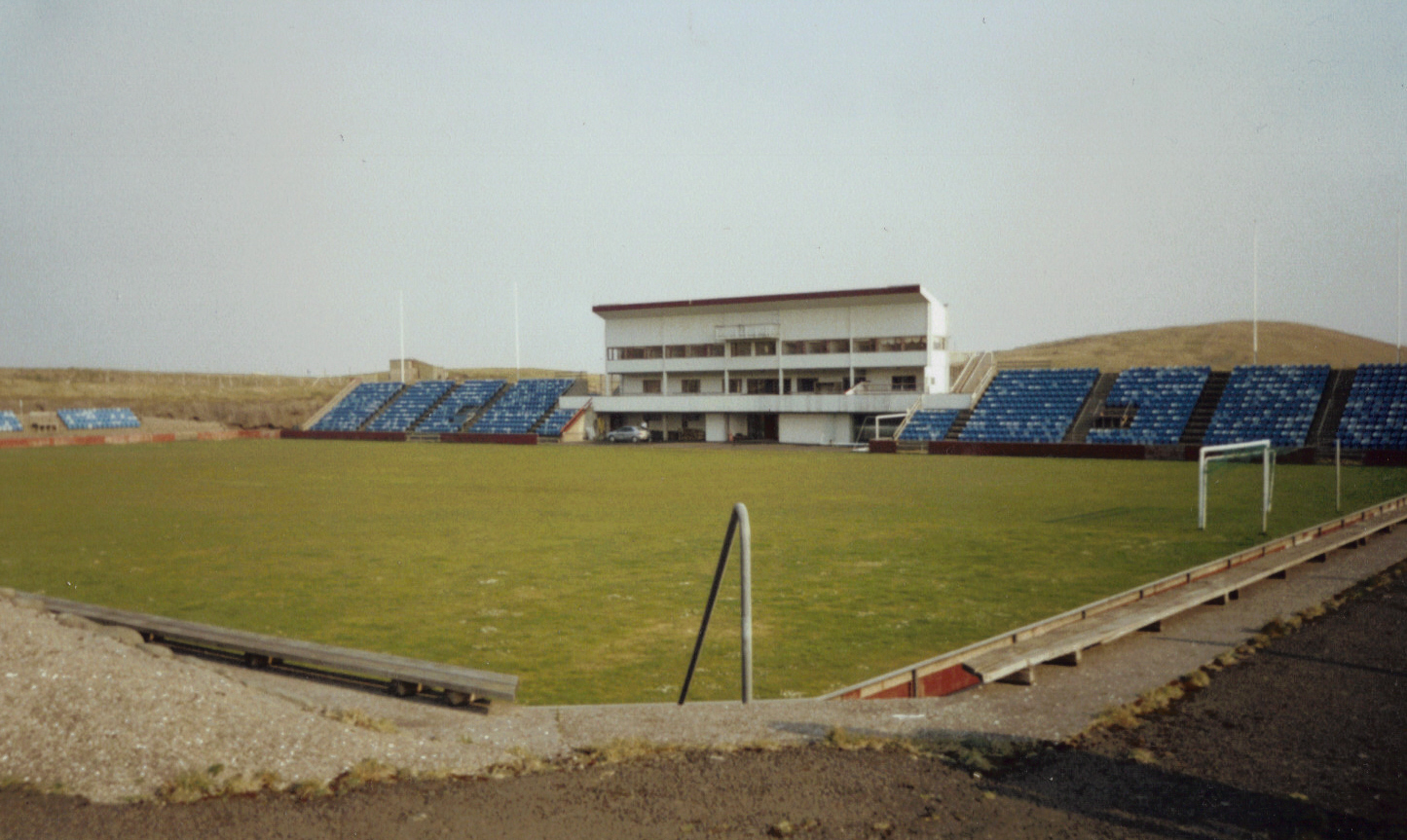 Toftir Stadium, Faroe Islands